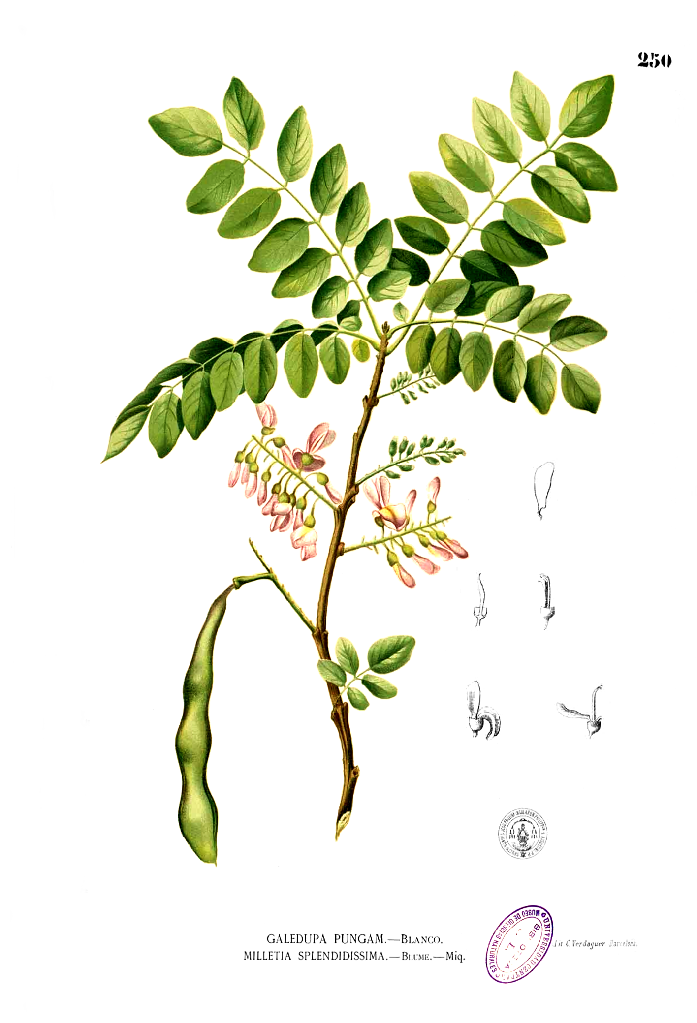 Plate from book